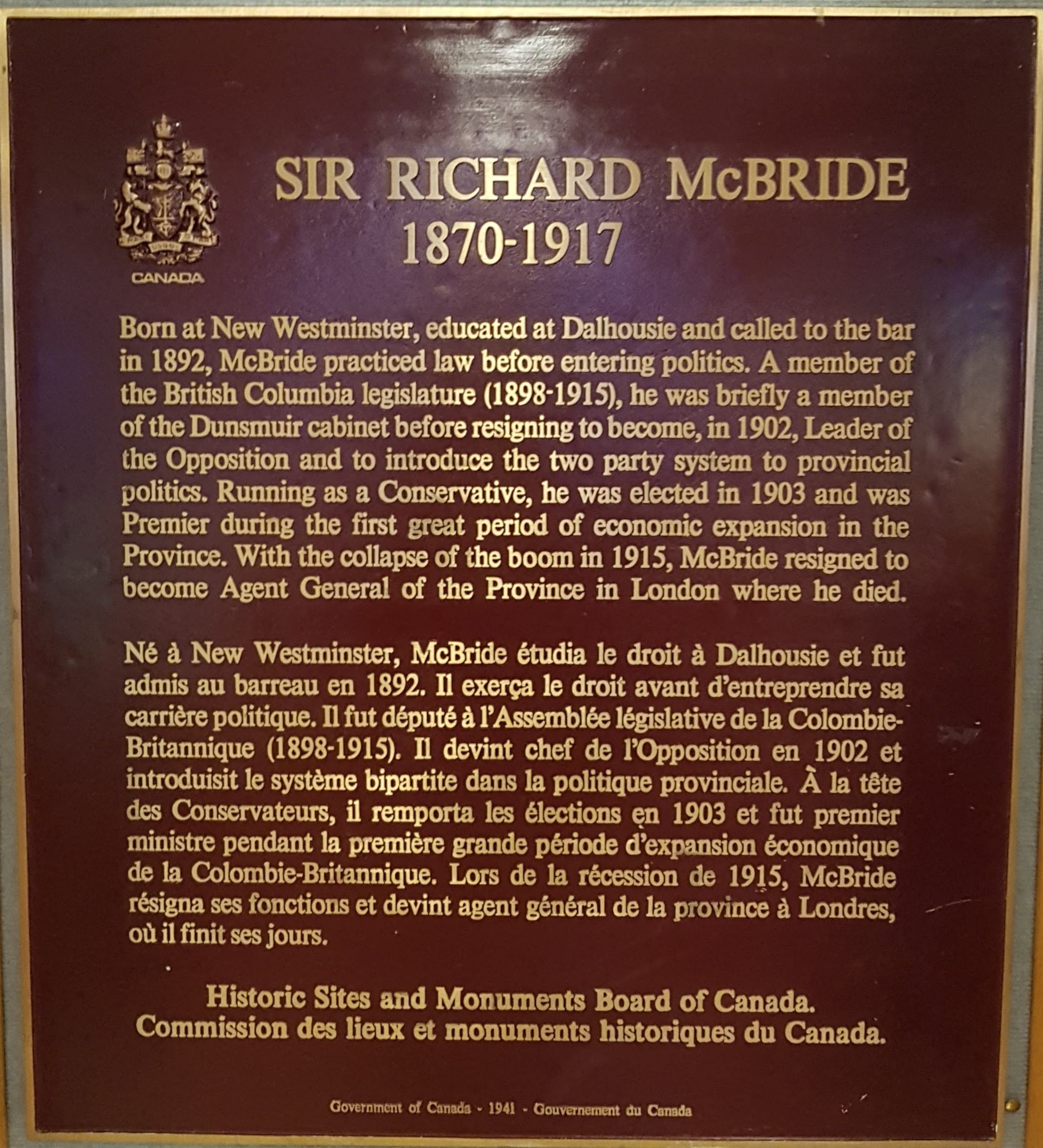 Plaque from Richard McBride Elementary about the former premier.